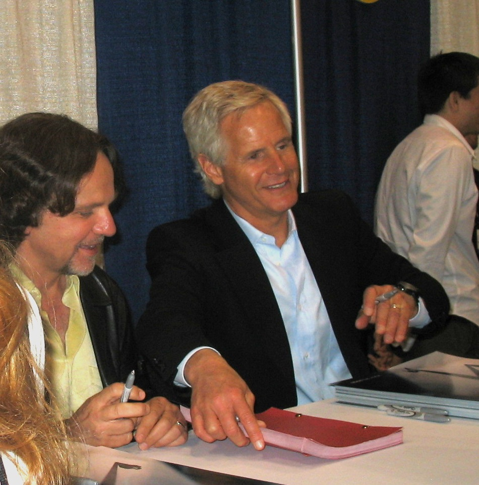 New York ComicCon during the X-Files autograph session with Chris Carter and Frank Spotnitz, creators of The X-Files.